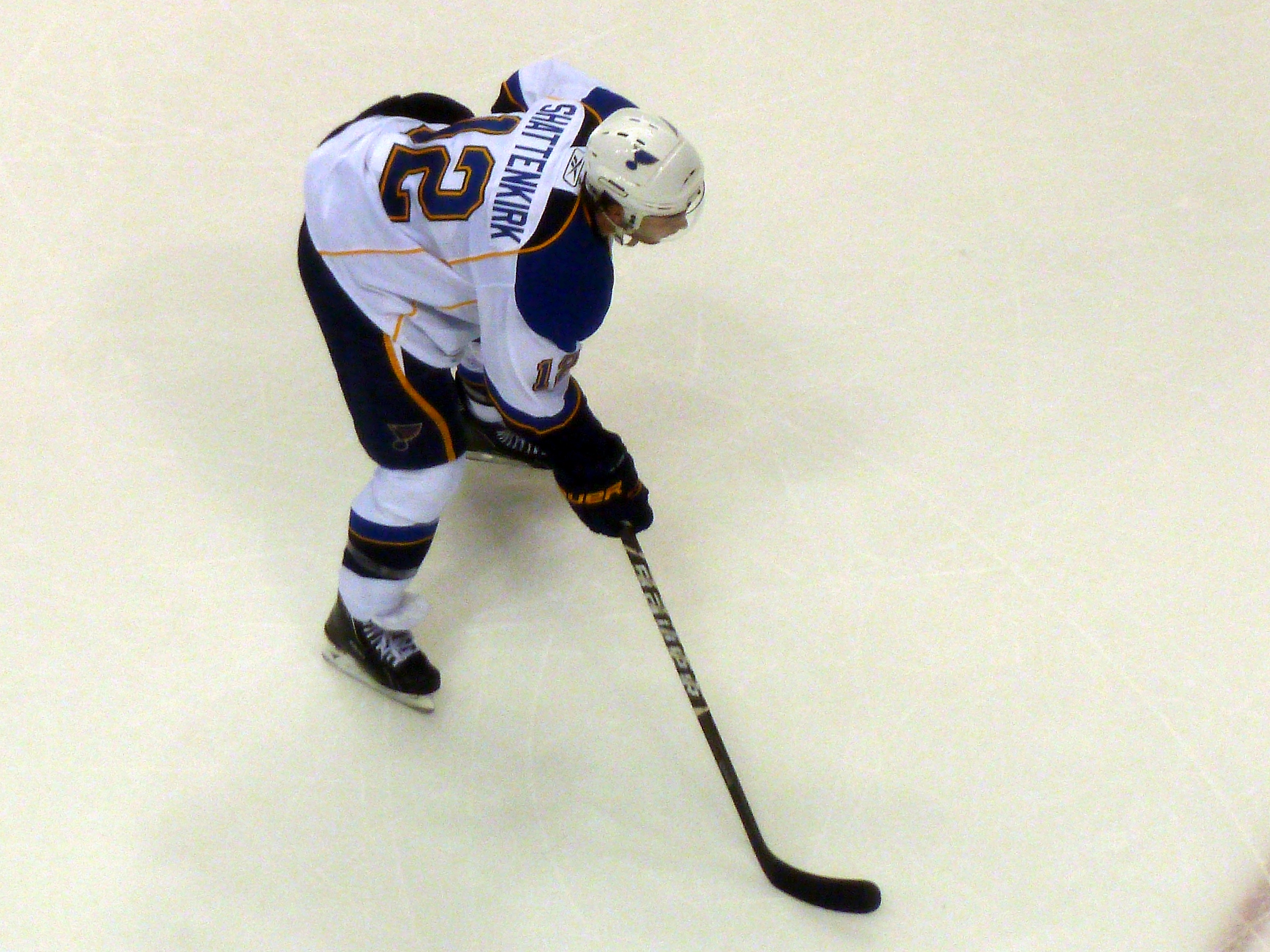 Kevin Shattenkirk with his new team, the St Louis Blues. StL @ Van 25-02-2011